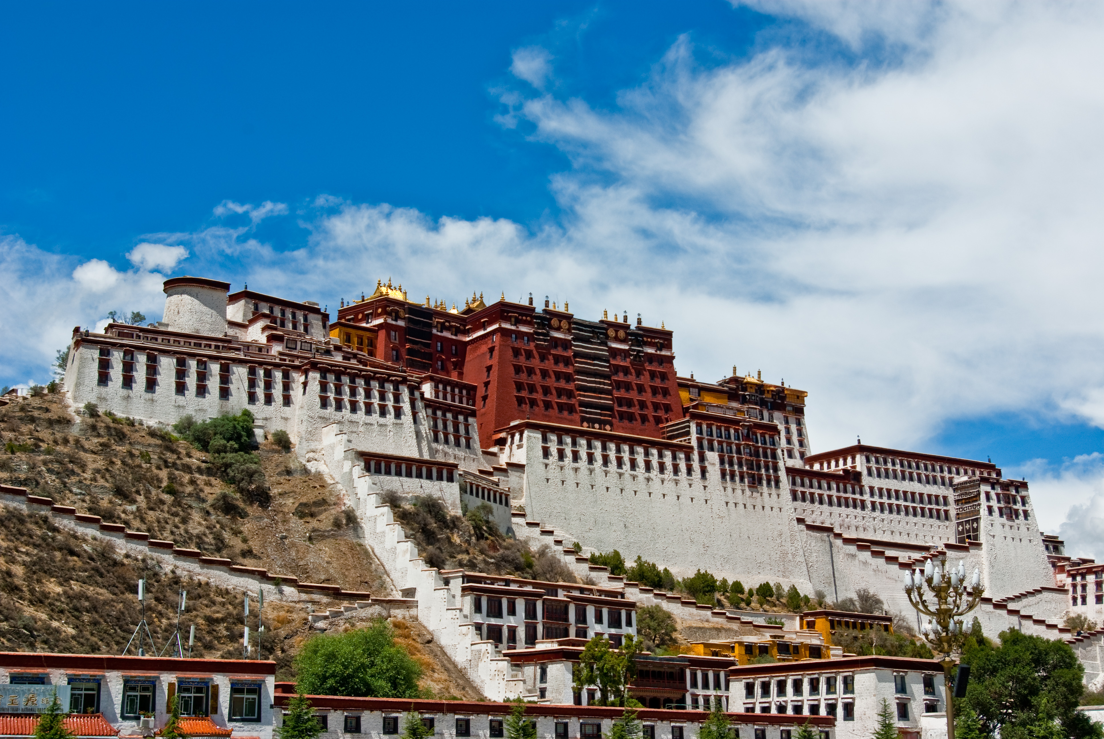 The Potala palace